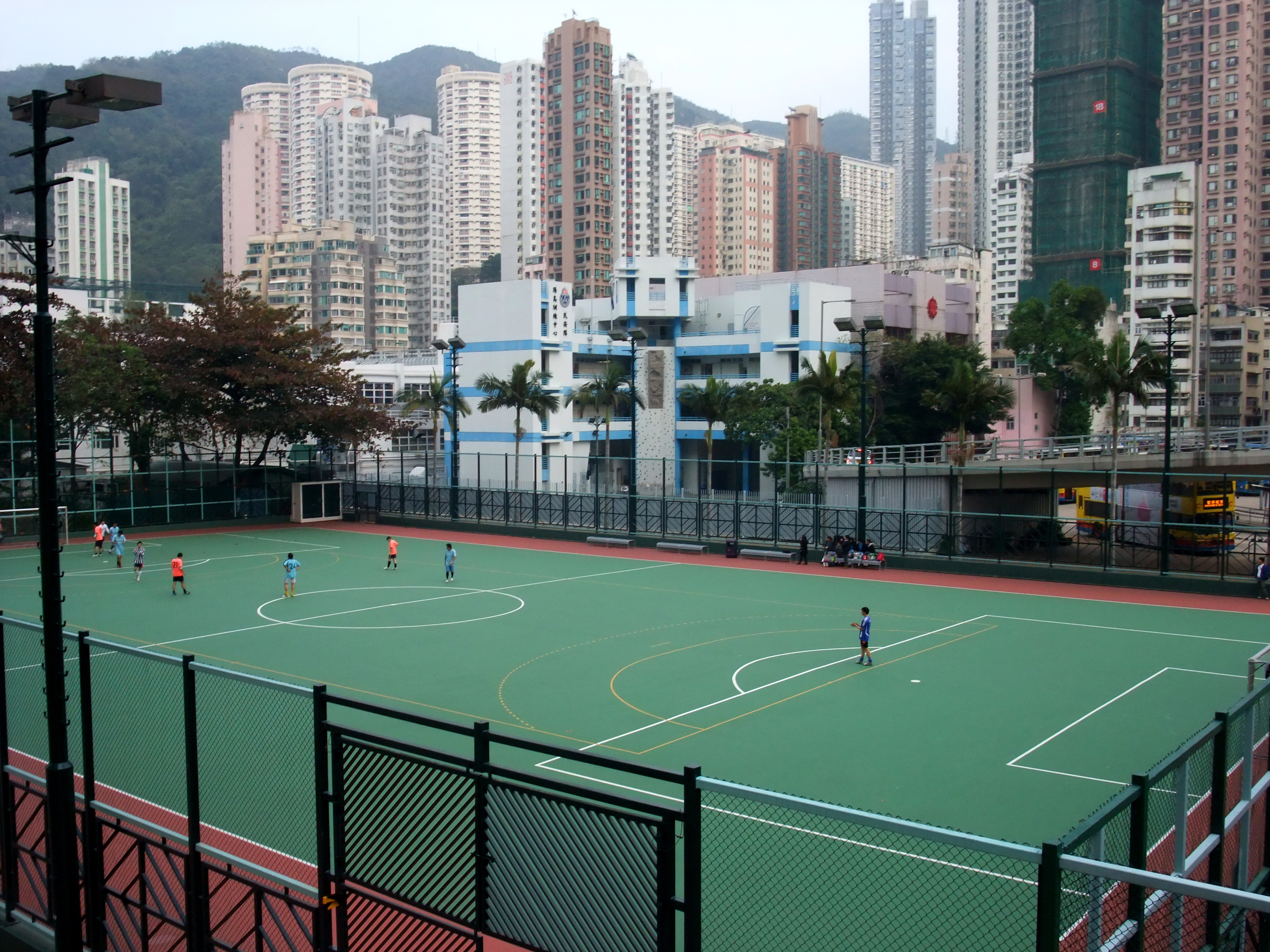 Moreton Terrace Temporary Playground, Causeway Bay, Hong Kong.